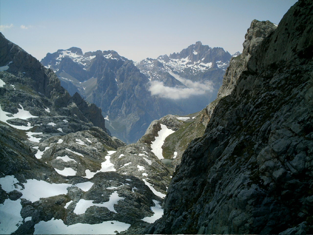 View of the Western Massif (with Torre Bermeja and Peña Santa) from the road to Collado Jermoso. Image taken with a digital camera BENQ DC E30.